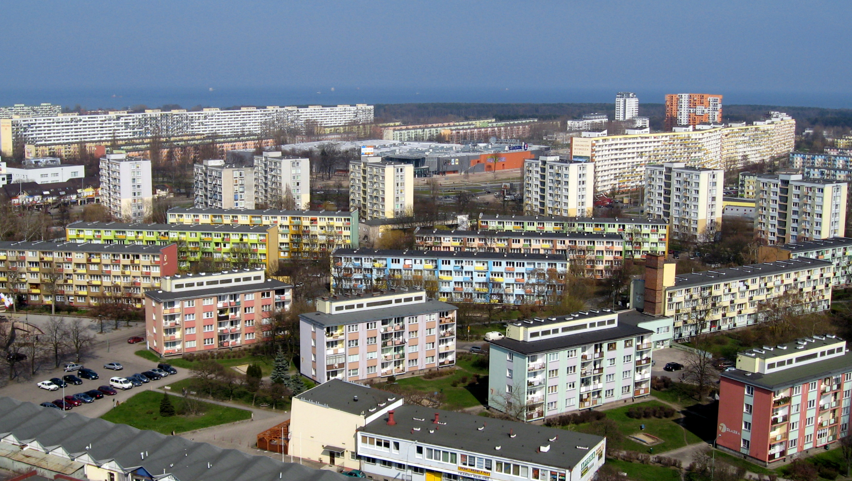 Blocks of flats Gdansk with the Baltic Sea in the background